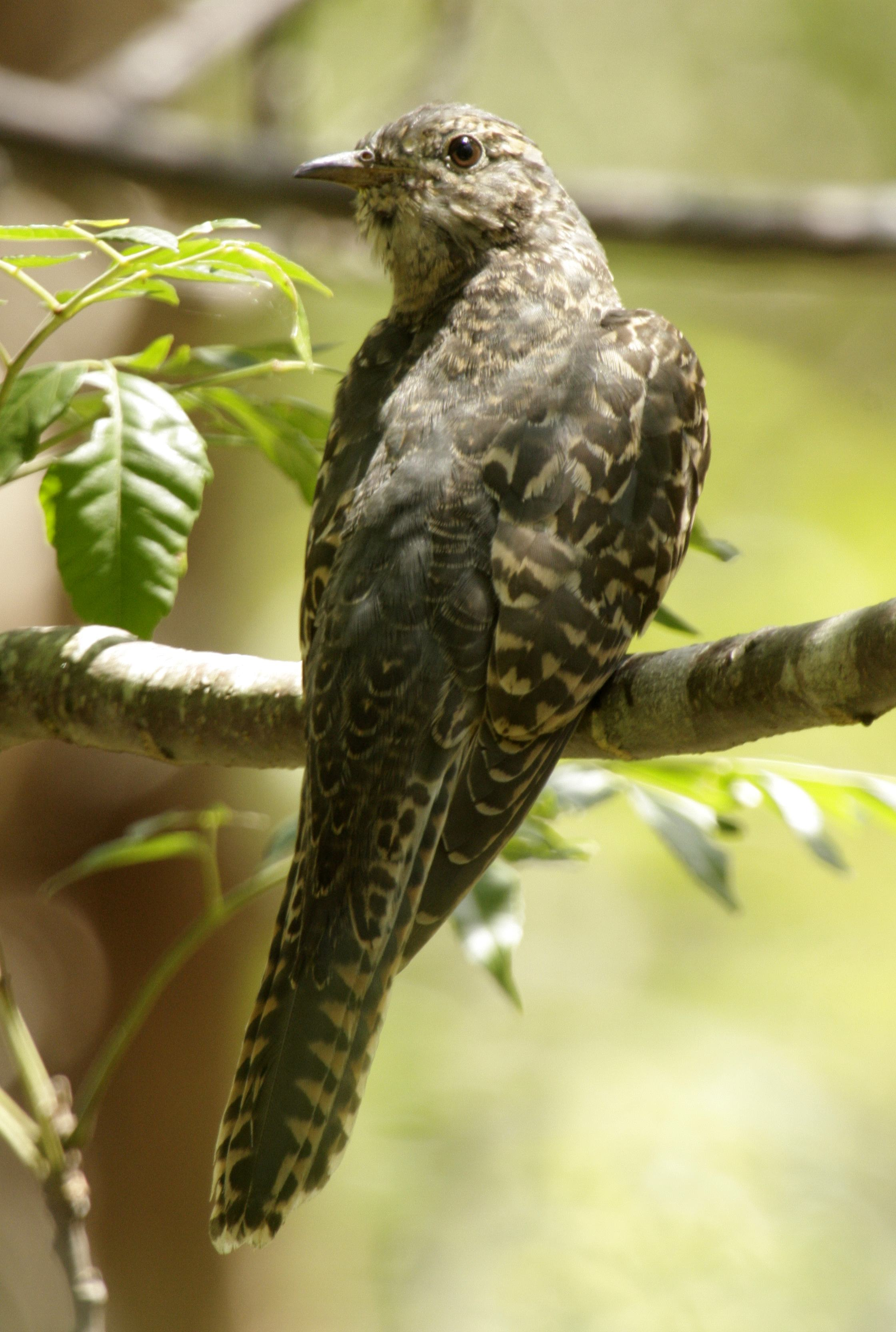 Brush Cuckoo (Cacomantis variolosus) Juvenile, Kobble Creek, SE Queensland, Australia